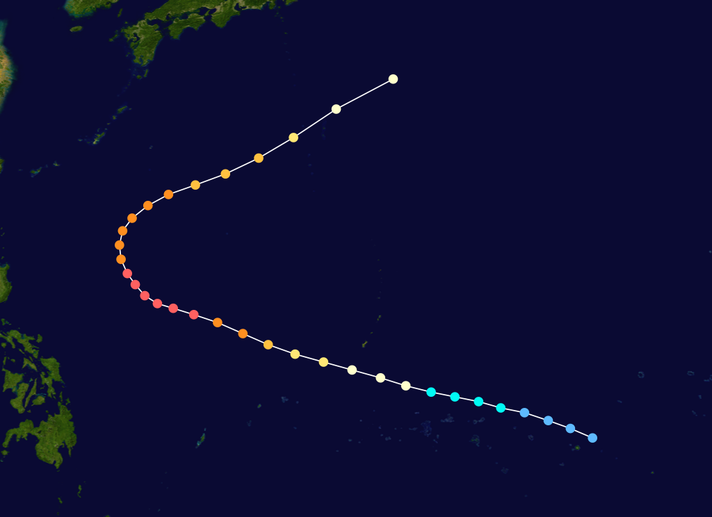 Typhoon Vanessa 1984 track. Uses the color scheme from the Saffir-Simpson Hurricane Scale.